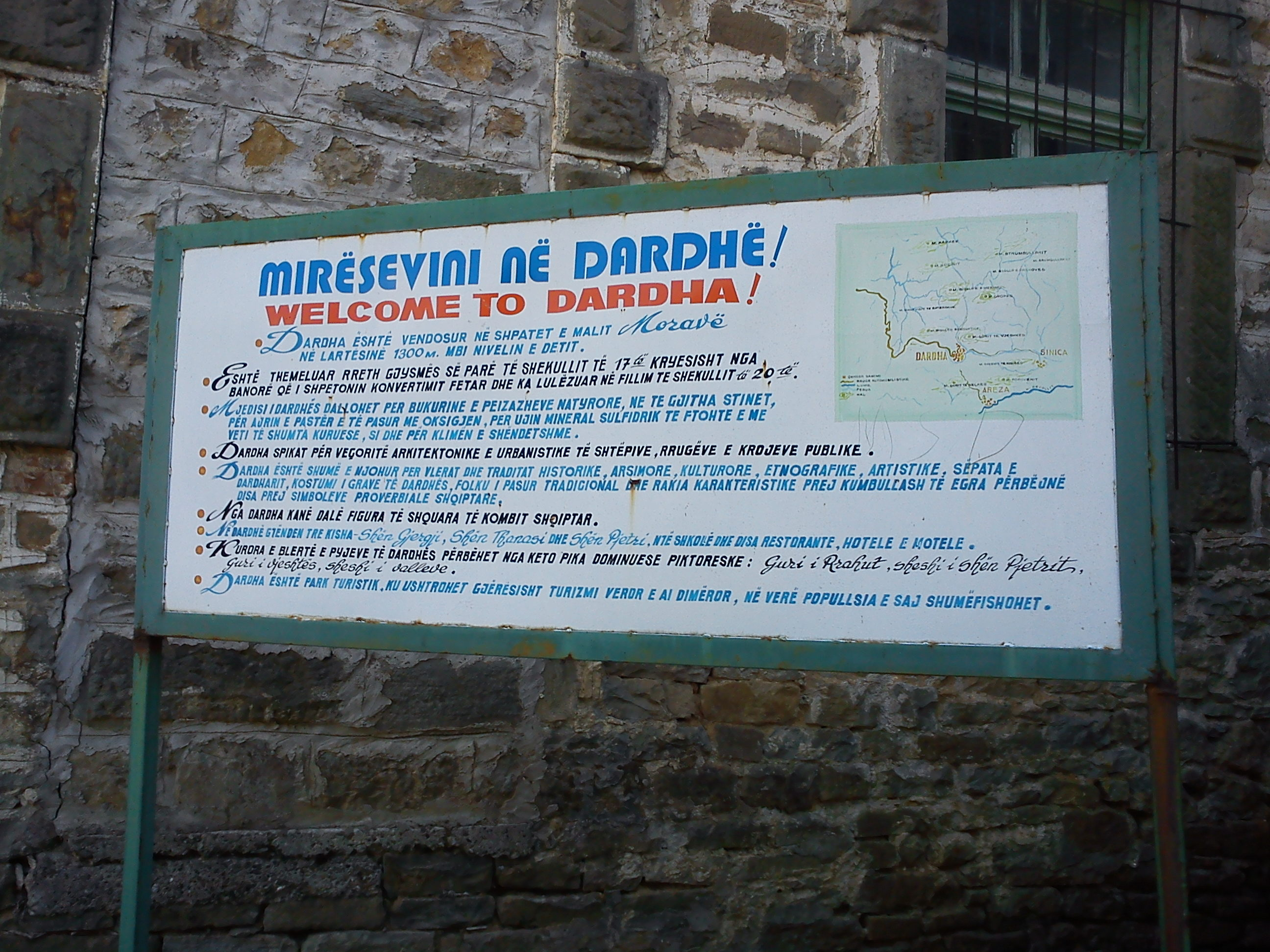 Dardha